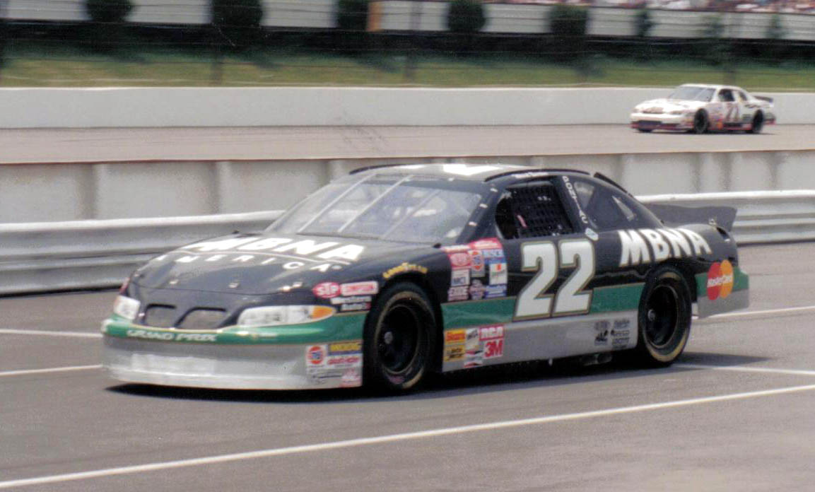 NASCAR driver Ward Burton #22 MBNA Grand Prix at Pocono in 1997. #71 in the background is Dave Marcis